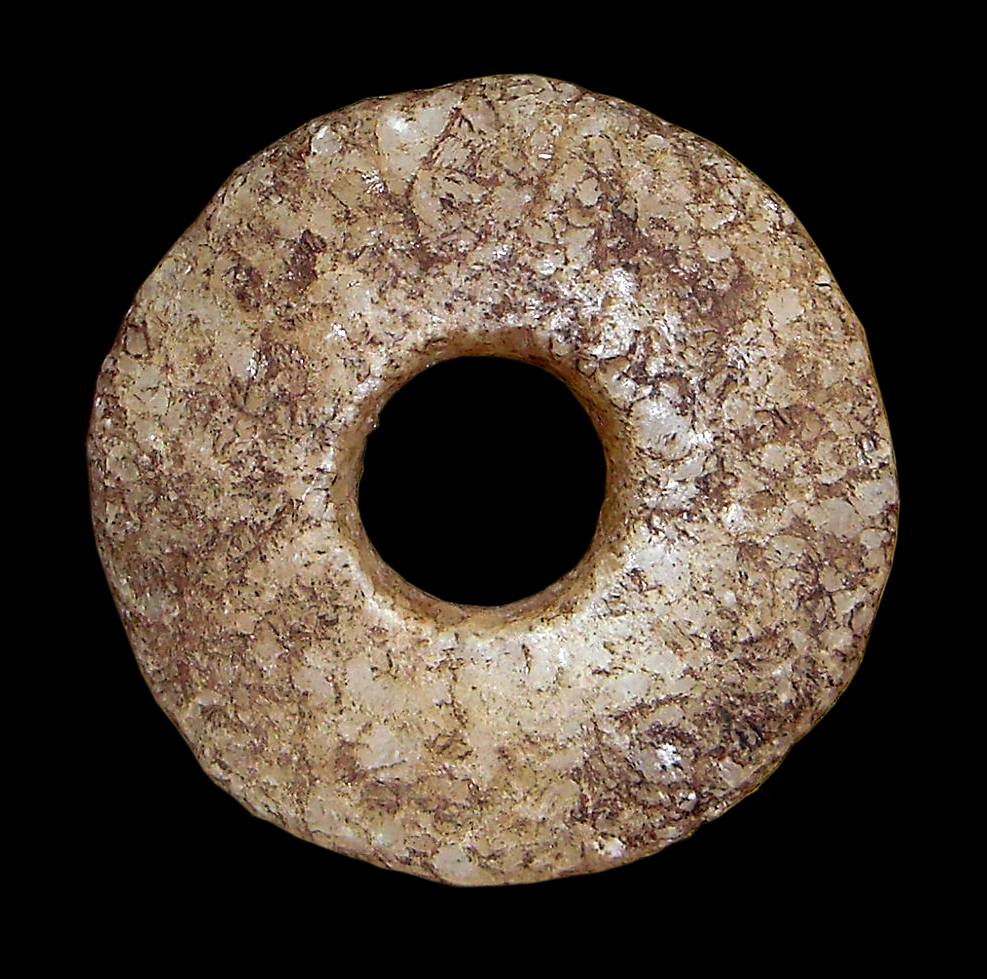 Spindle from Hjo, Kåkind hundred, former Skaraborg county, Västergötland, Västra Götaland county, Sweden.